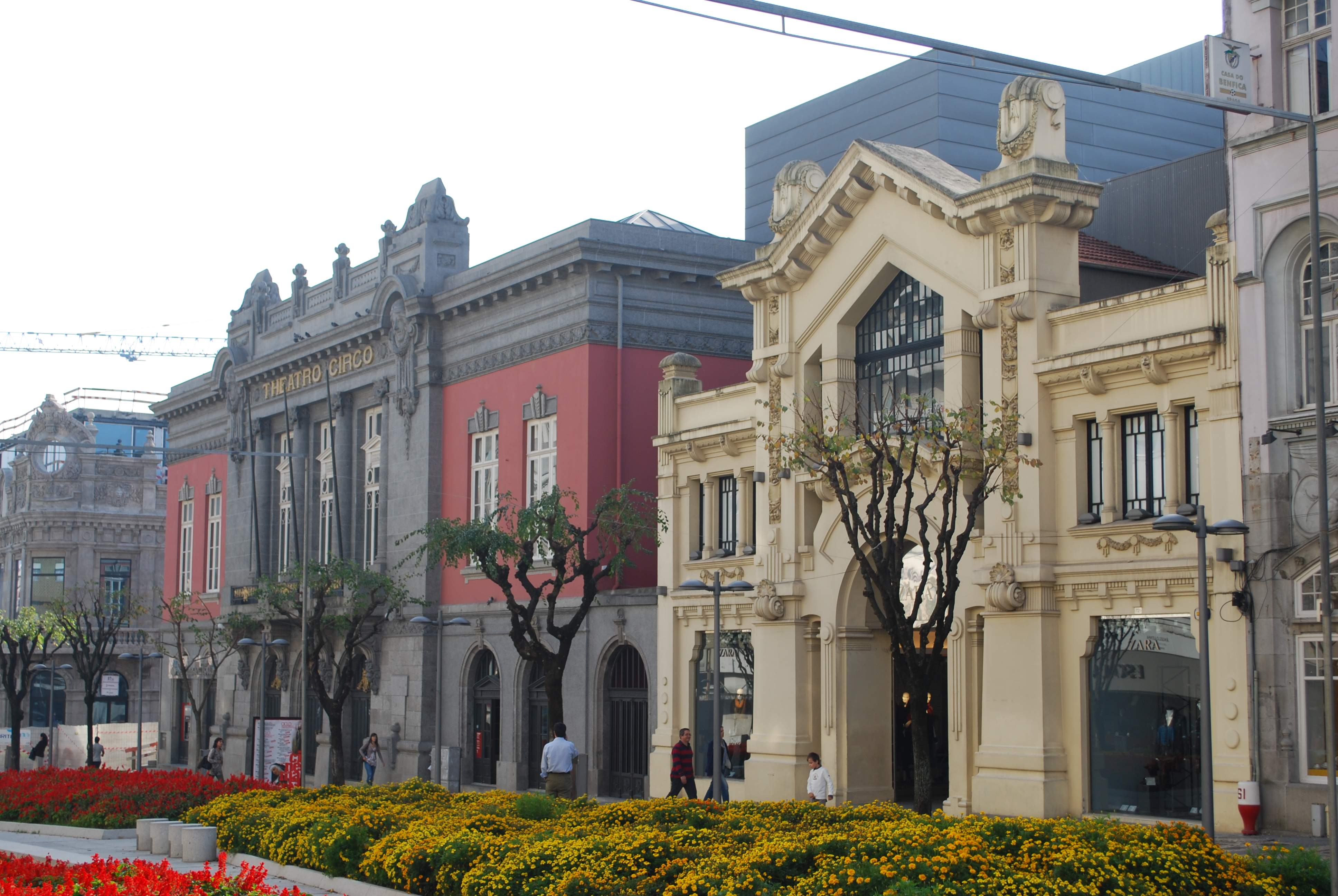 This file was uploaded for Wiki Loves Monuments in Portugal with the unique identifier 71275.